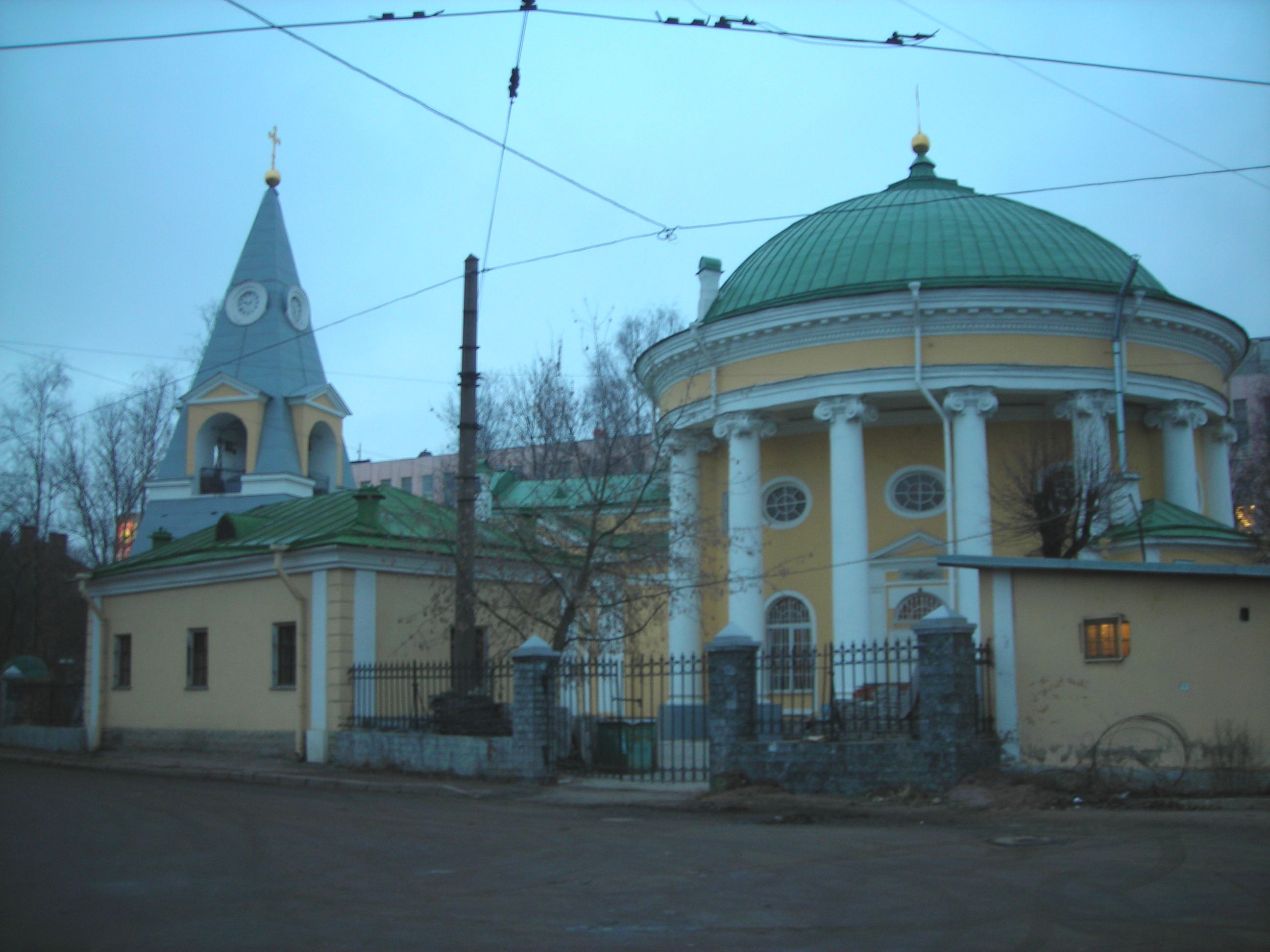 Saint Petersburg (Russia), Troitskaya church